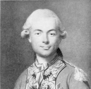 Portrait of swiss lieutenant general Charles-Daniel de Meuron